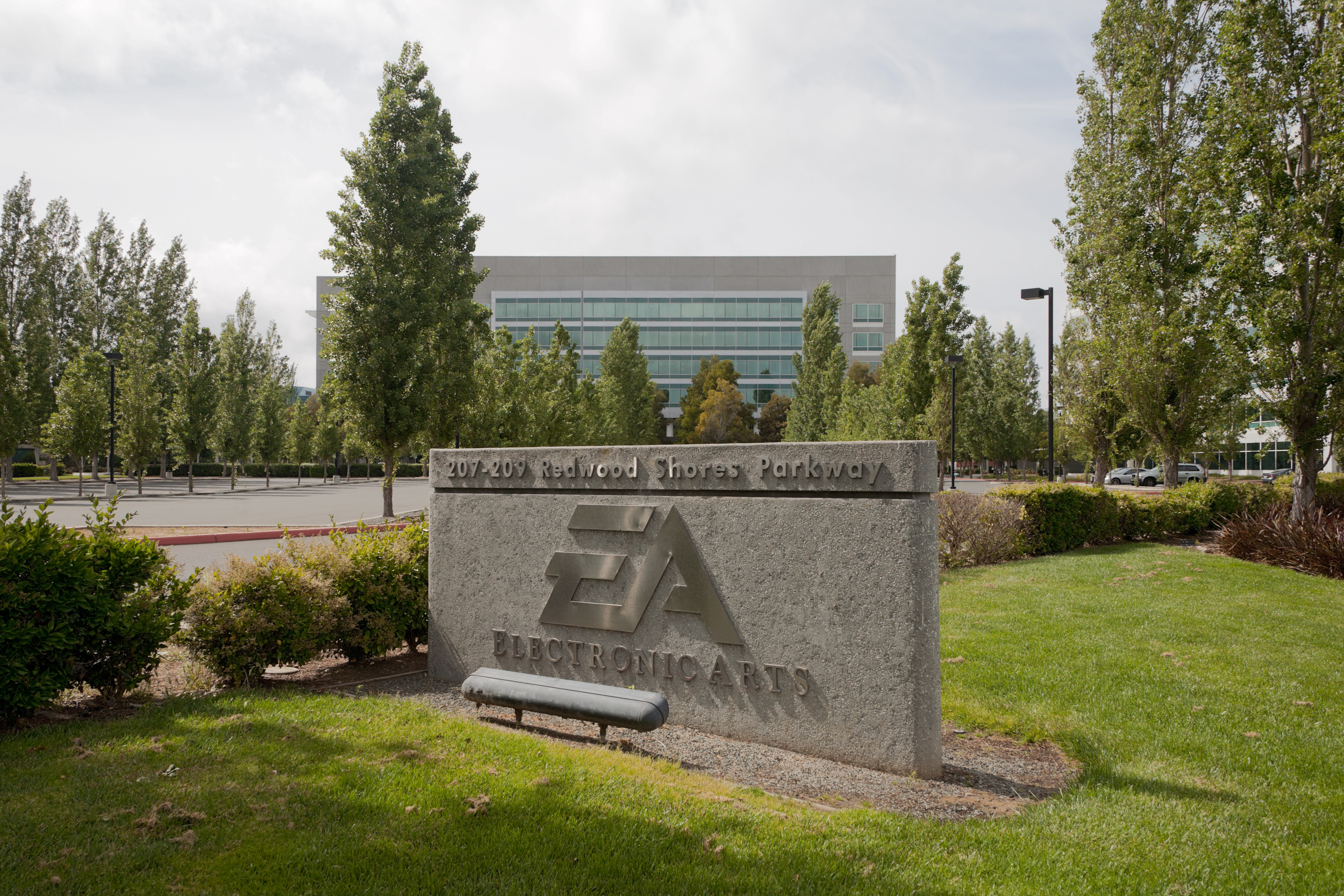 The headquarters of Electronic Arts in Redwood Shores, Redwood City, California.